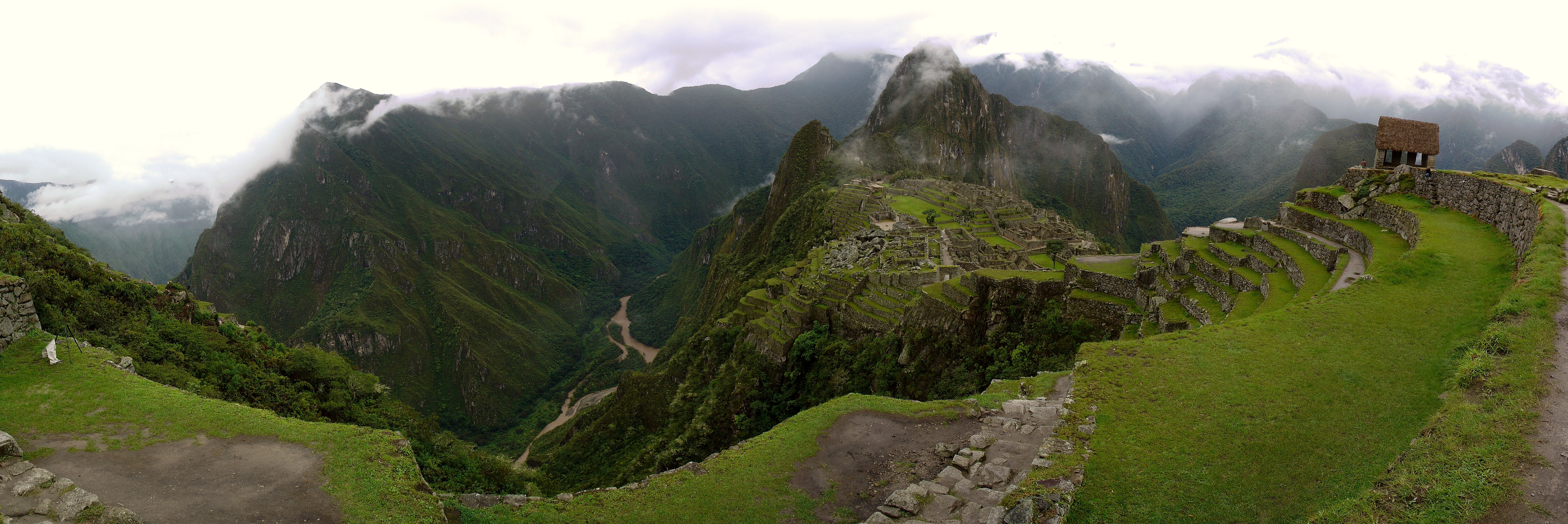 Panorama of Machu Picchu in late afternoon on a cloudy day. Panorama created with the Hugin computer program